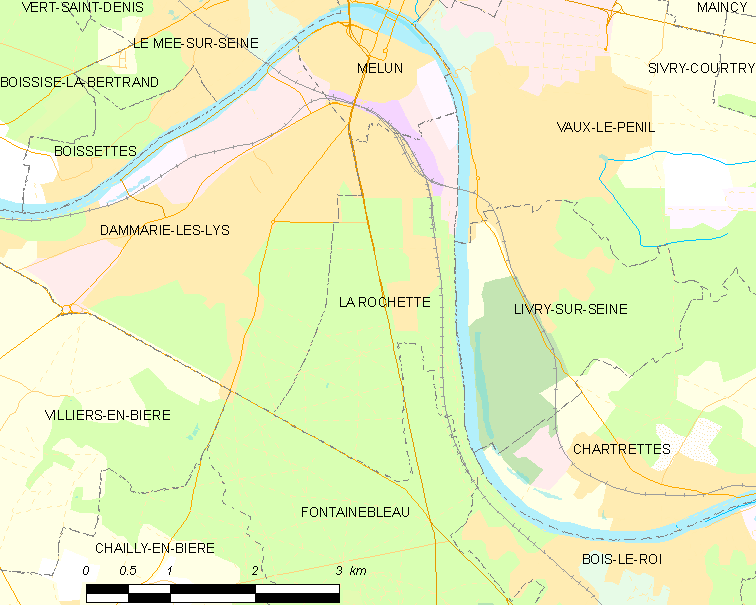 Map of French municipality La Rochette